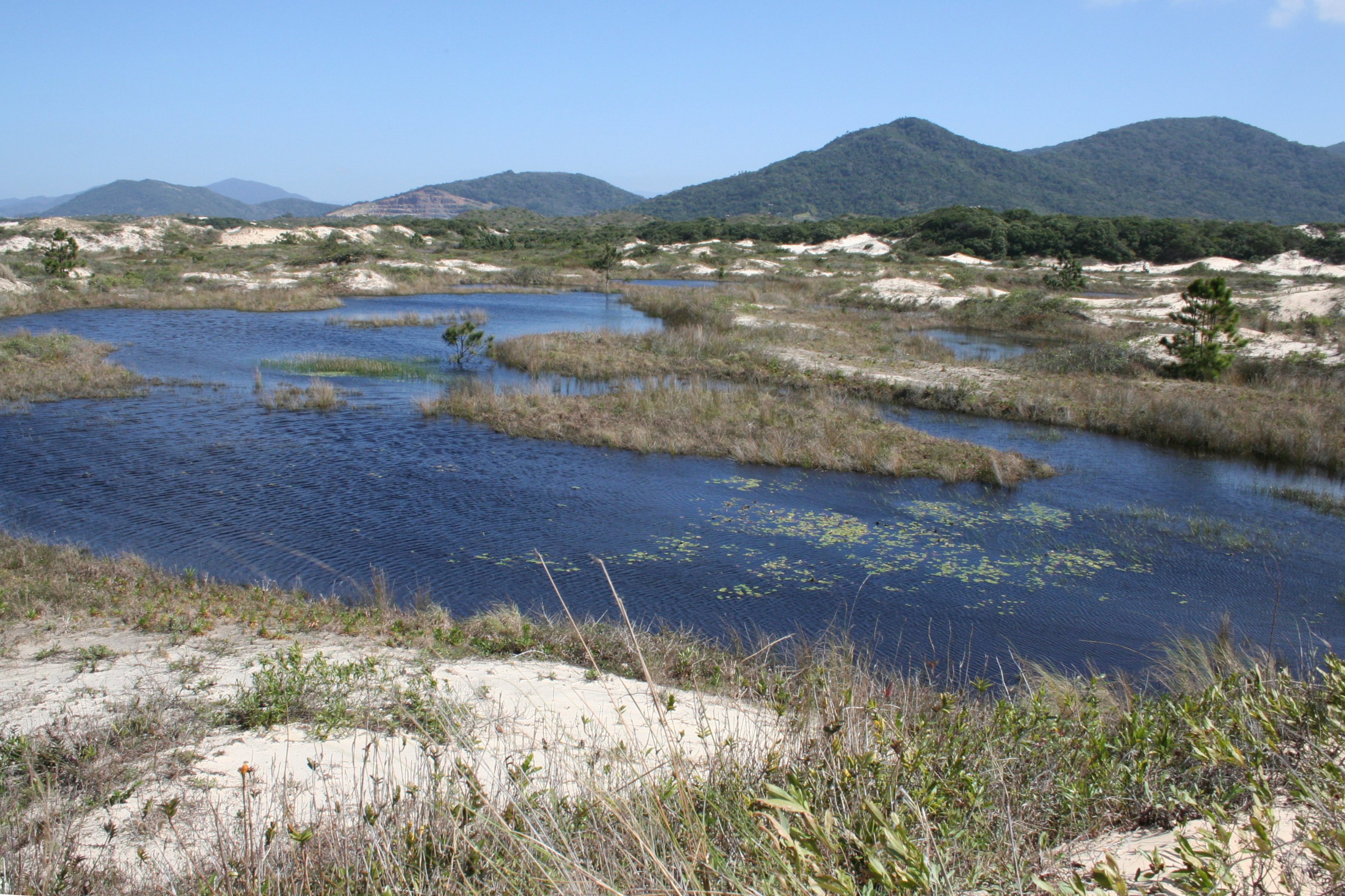 Lagoons of the protected area named as Parque Natural Municipal das Dunas da Lagoa da Conceição, in Florianópolis, southern Brazil.